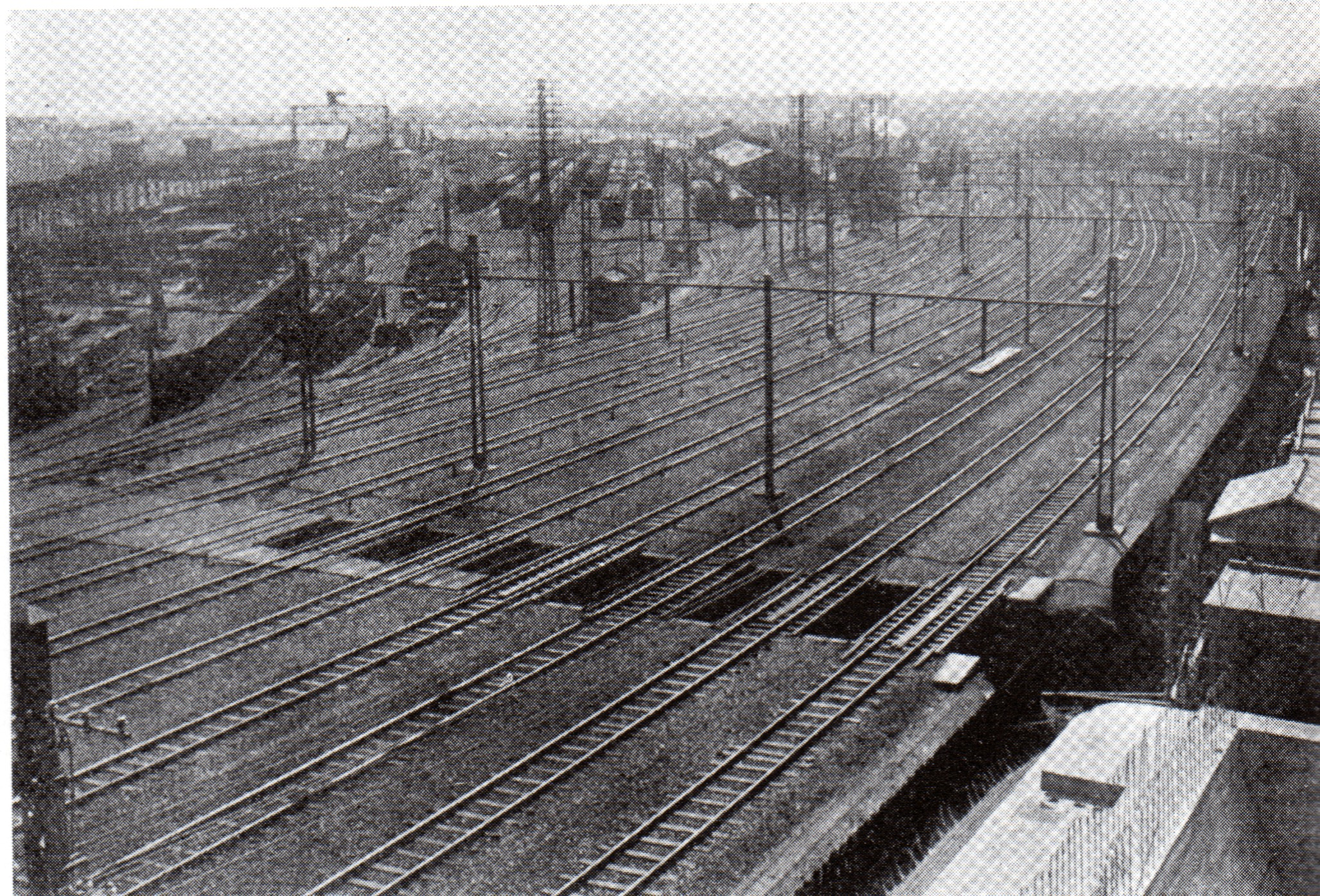 Shinagawa railway depot, 1931.